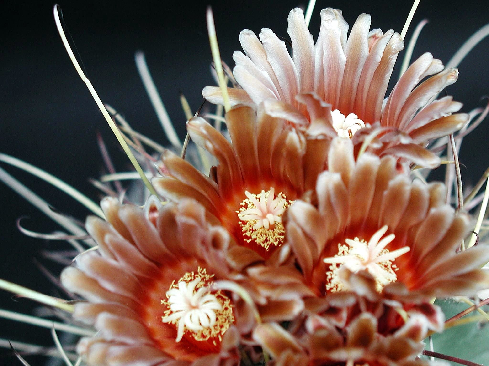 Image title: Cactus flower with thorns Image from Public domain images website